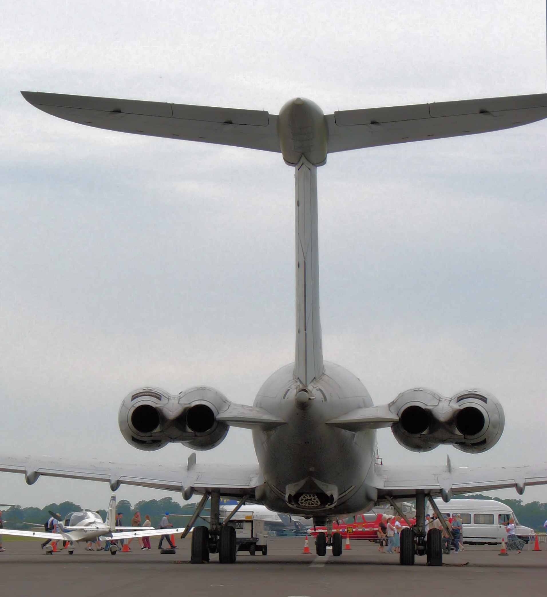 Vickers VC-10 refuelling tanker K3 (ZA147)from the rear, at Kemble Airfield, Gloucestershire, England